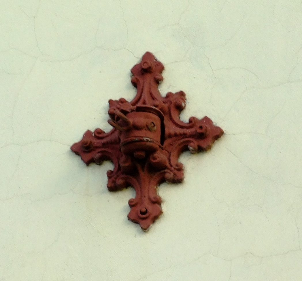 One of the very few remainings of old Tarnow tram network in the historic city centrehelp